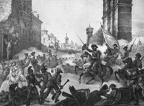 Garibaldi enter the Rome